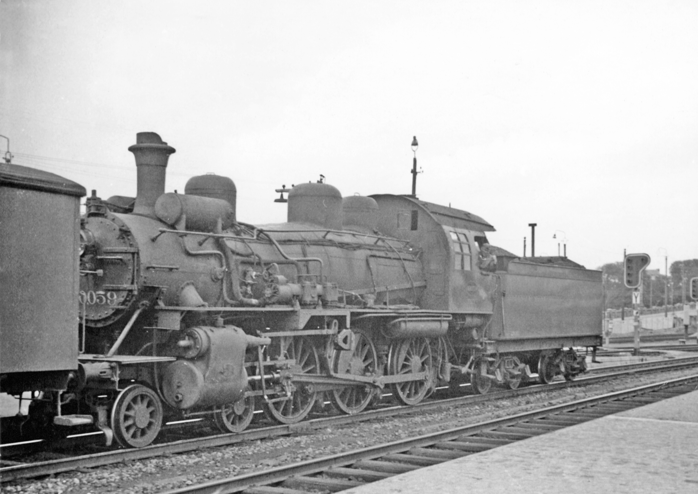 A Class 40 4-6-0 (built 1917) at Mons station.